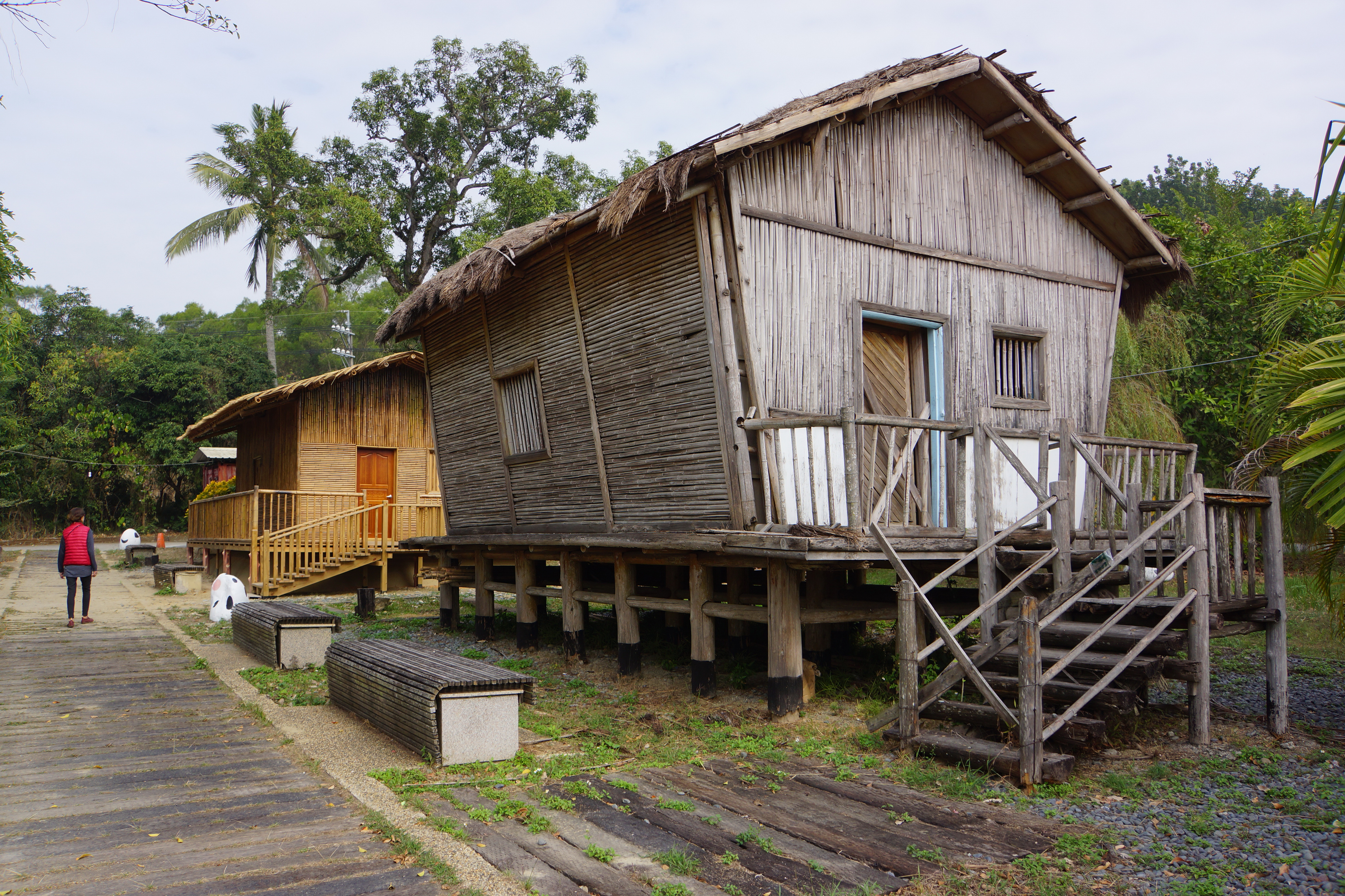 頭社平埔文化園區 Toushe Pingpu Cultural Park